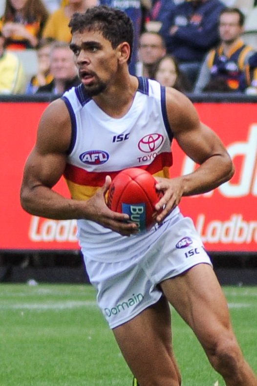 Charlie Cameron during the AFL round two match between Hawthorn and Adelaide on 1 April 2017 at the Melbourne Cricket Ground in Melbourne, Victoria.